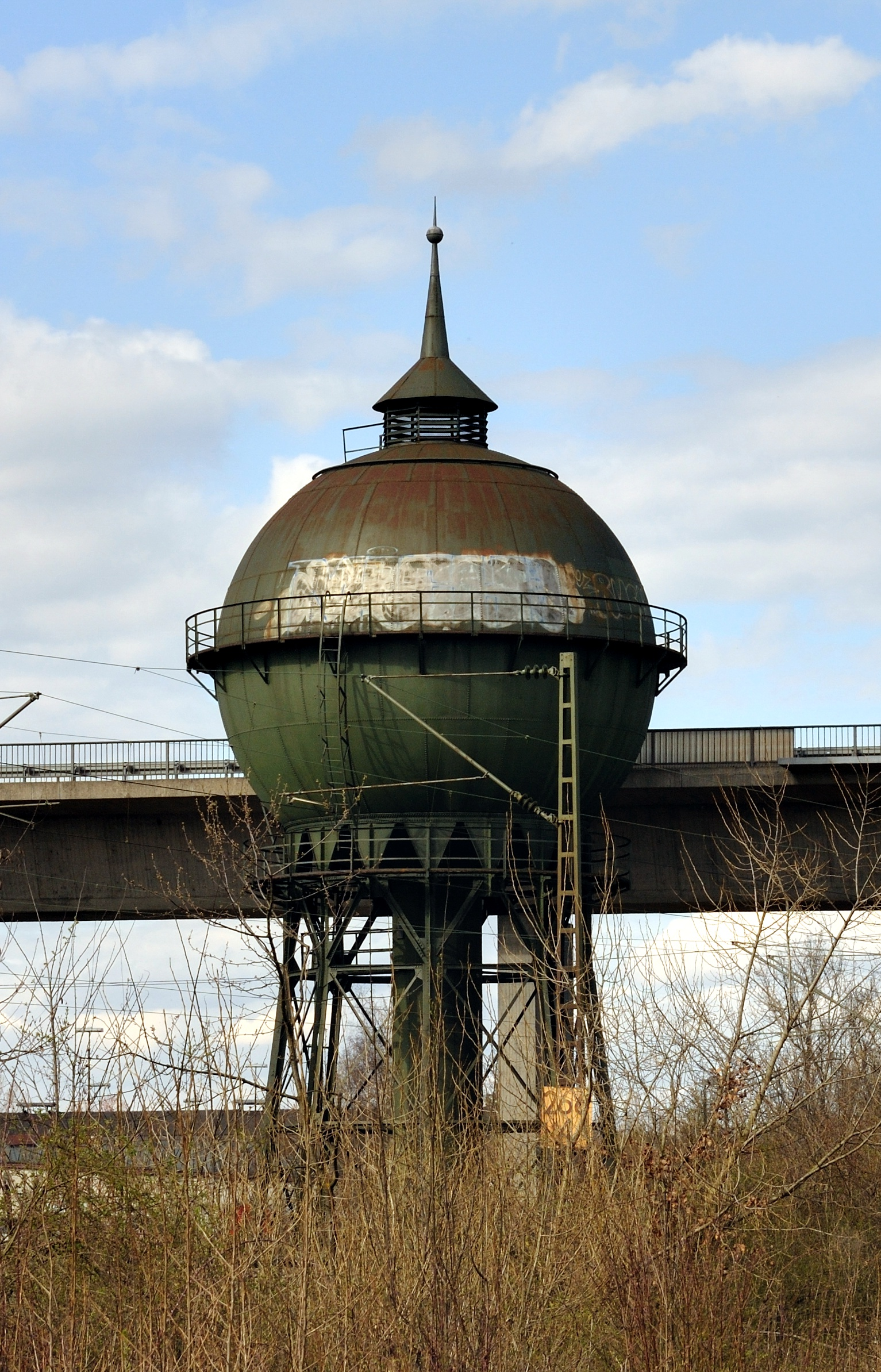 Water tower in Haltingen (build 1913).